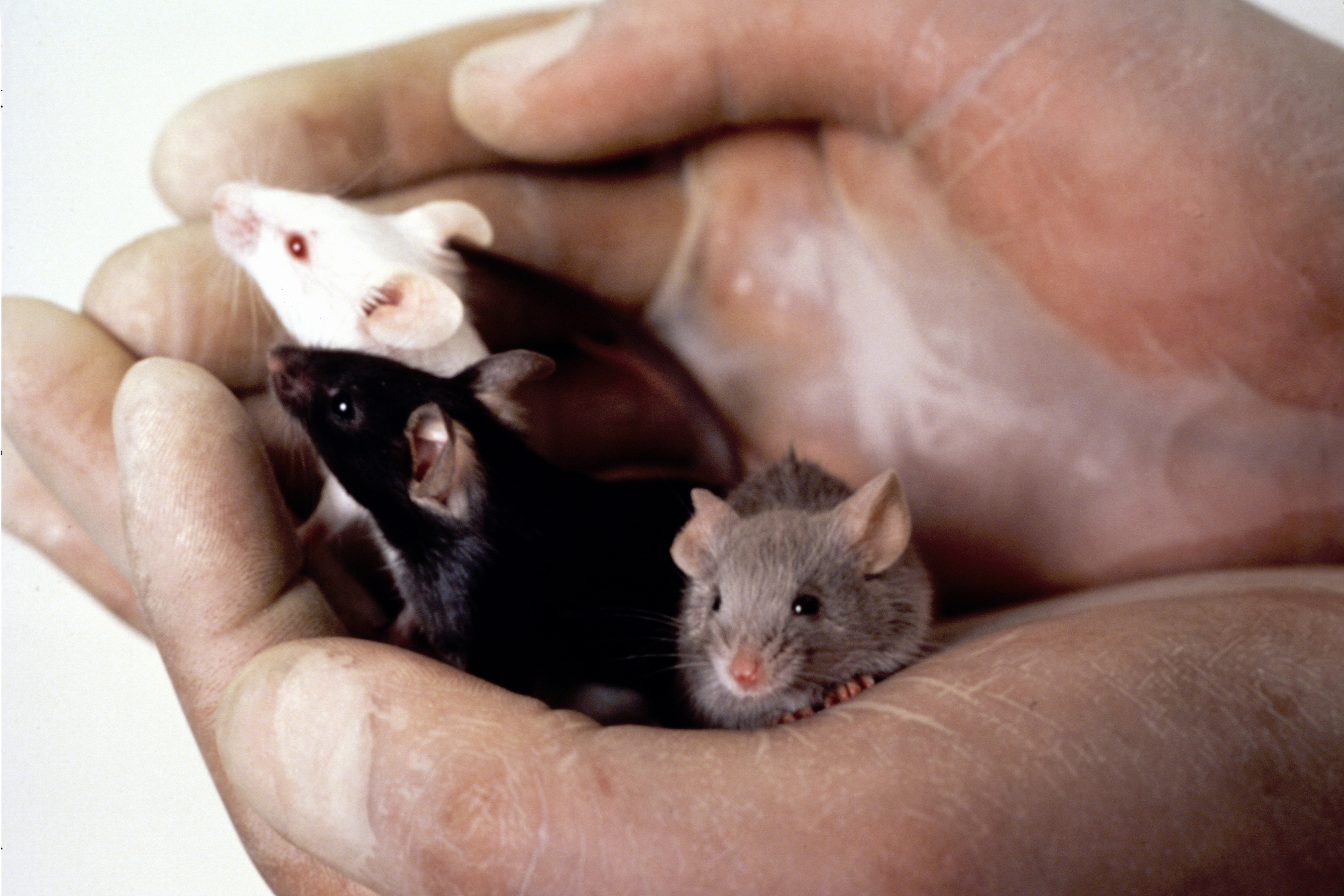 Title Mice Description Three different strains of mice used in experiments. Visible is a technician's hands holding the three test animals. Topics/Categories Animals Type Color, Other Source National Cancer Institute